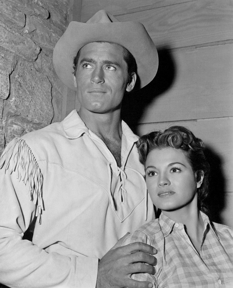 Photo of Clint Walker and Angie Dickinson from the television series Cheyenne. The episode is "War Party".